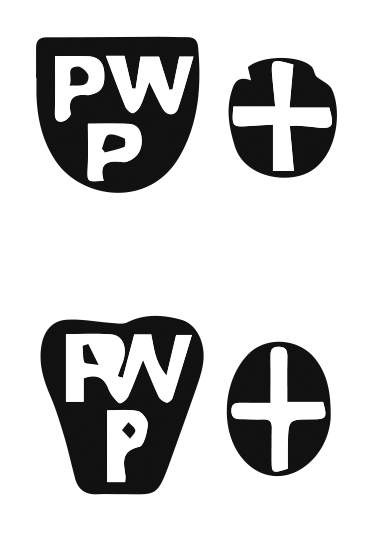 Peter Wilhelm Polack goldsmith sign after Die Goldschmiede Revals